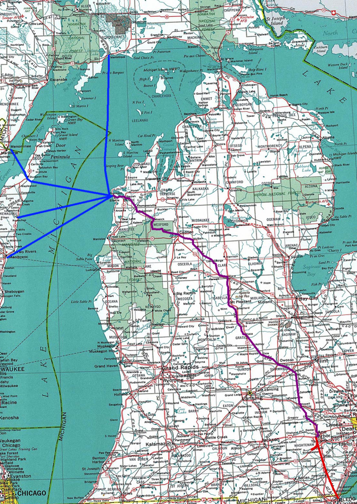 Map of the Ann Arbor Railroad based on National Atlas of the USA 1970 red = Ann Arbor Railroad today purple = Former Ann Arbor Railroad blue = Ferrys grey = Manistique & Lake Superior RR